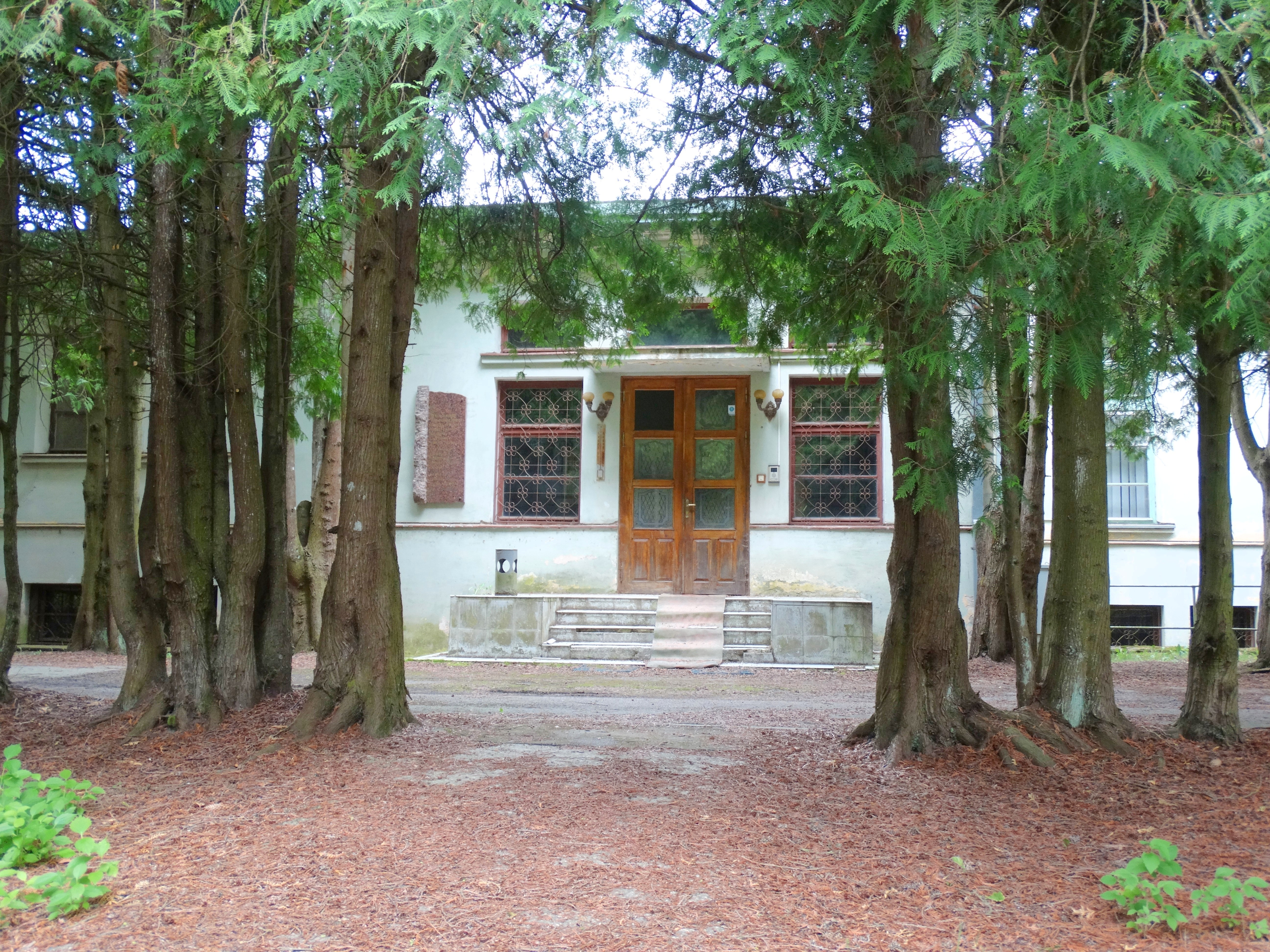 Sitkūnai, former radio station, Kaunas district. Lithuania